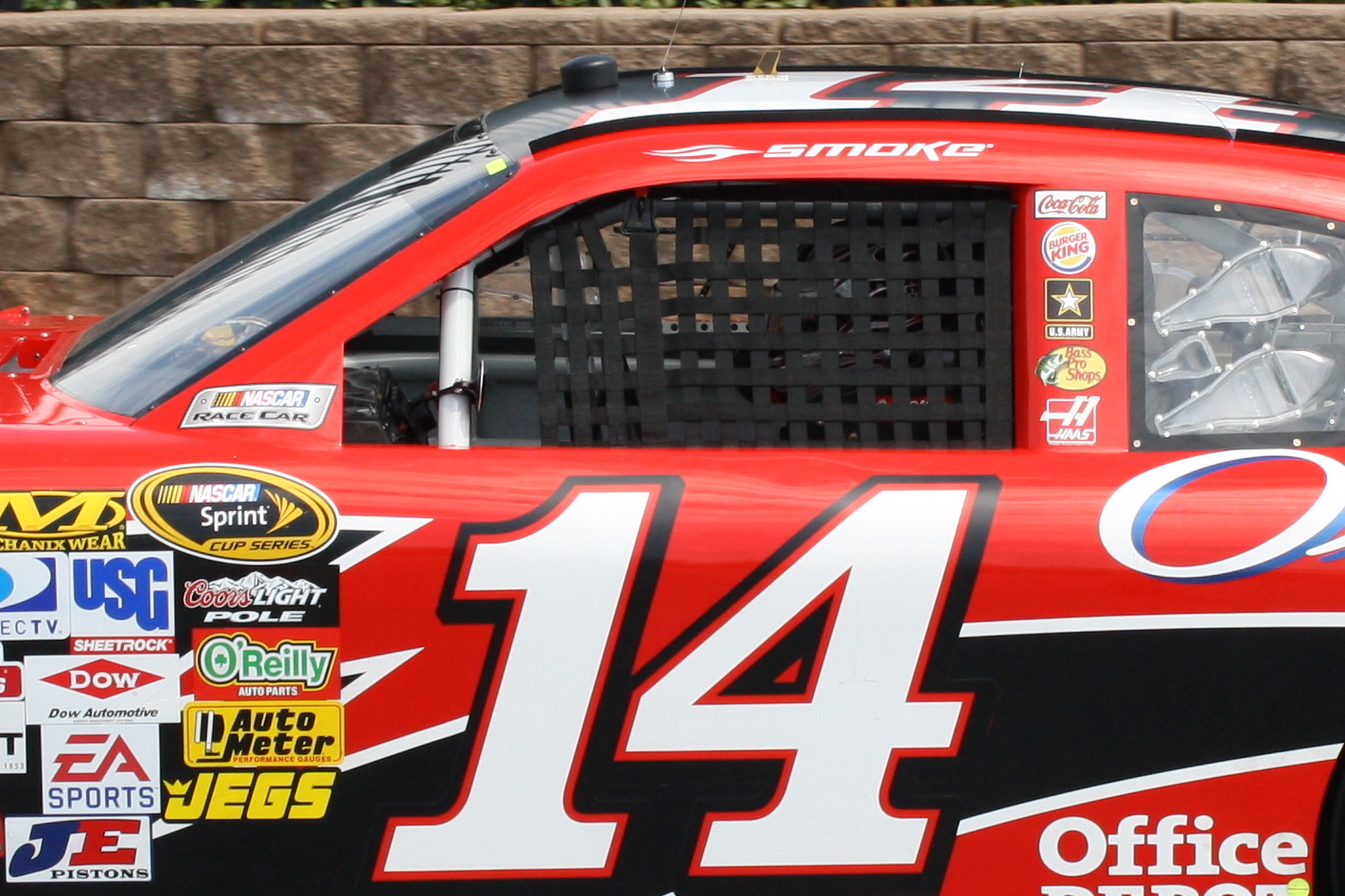 Tony Stewart, NASCAR, Stewart-Haas Racing, Sprint Cup Series, Chevy